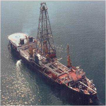 Songa Saturn drillship (ex - Global Marine R.F. Bauer.)